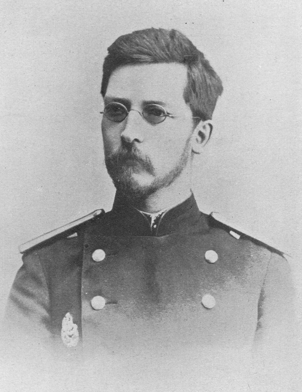 «The accompanying portrait (Frontispiece), taken in 1895, represents BOROVSKY — wearing the uniform of a medical officer in the Imperial Russian Army — at the age of 32, at the period when his researches on oriental sore were being conducted. The original portrait was given to the late Prof. G. H. F. NUTTALL, F.R.S., by Prof. E. N. PAWLOWSKY, of the Military Medical Academy, Leningrad, for inclusion in the " Portrait Gallery " of parasitologists at the Molteno Institute, Cambridge, and has been kindly placed at my disposal by Prof. D. KEILIN, F.R.S.»[1]